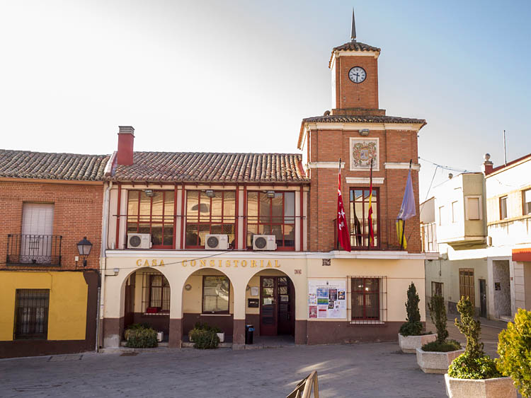 Ayuntamiento de Ajalvir.